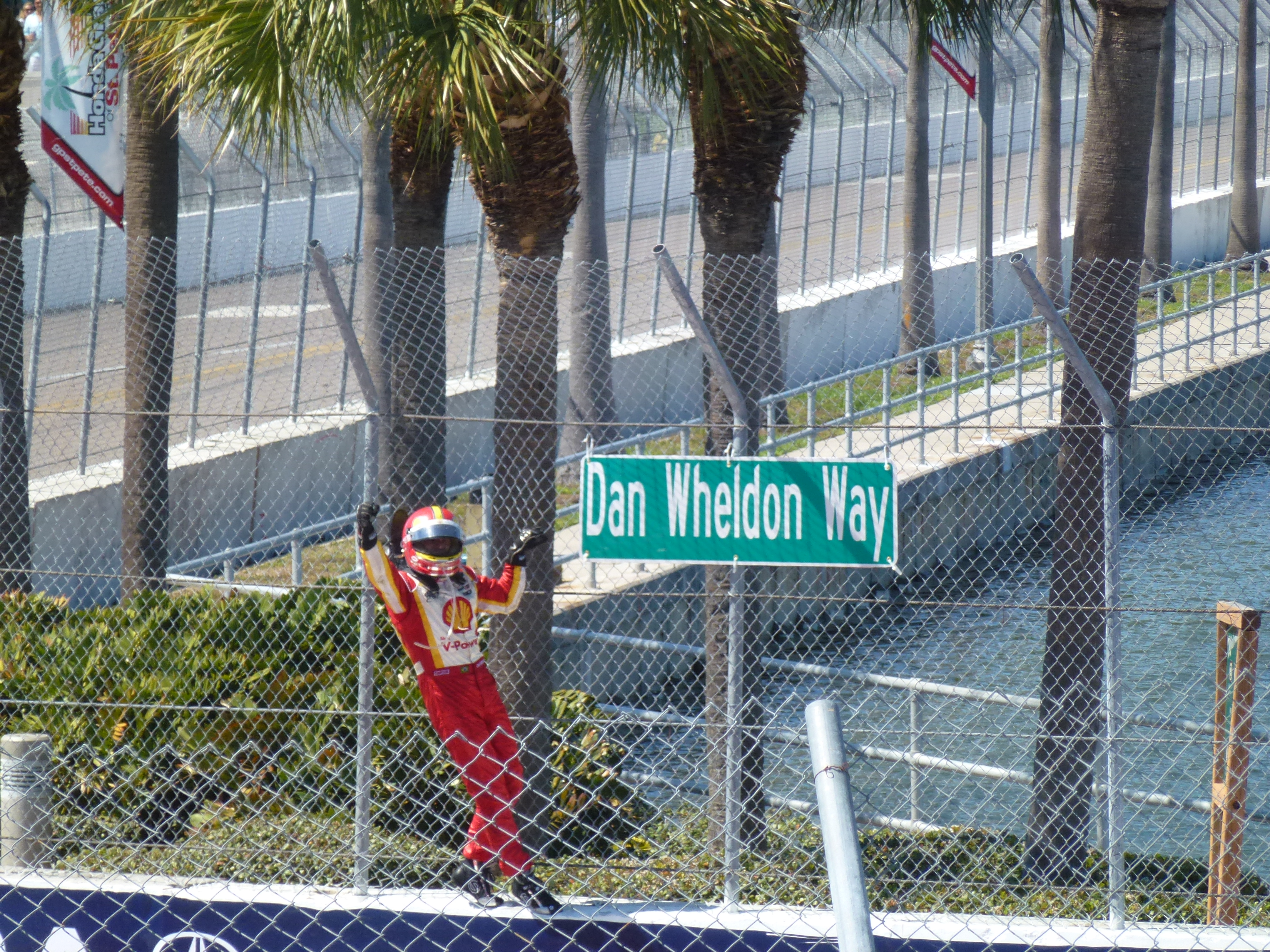 Helio Castroneves stopped at corner 10 on his victory lap after winning the 2012 Honda Grand Prix of St. Petersburg to pay respects to the sign honoring the late Dan Wheldon.